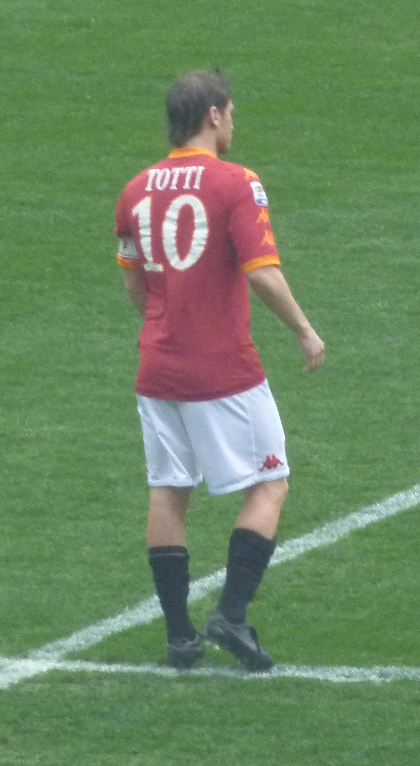 Francesco Totti in Rome Derby (13 MAR 2011)